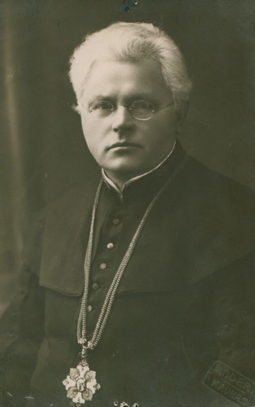 Juozas Tumas-Vaižgantas in 1923. He wears the original cross of the Samogitian Capitulum (it was stolen and Vaižgantas made a new one with additional coat of arms of Lithuania in 1924 - ref).